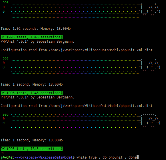 The Wikibase DataModel PHPUnit tests being run a loop using a NyanCat test printer